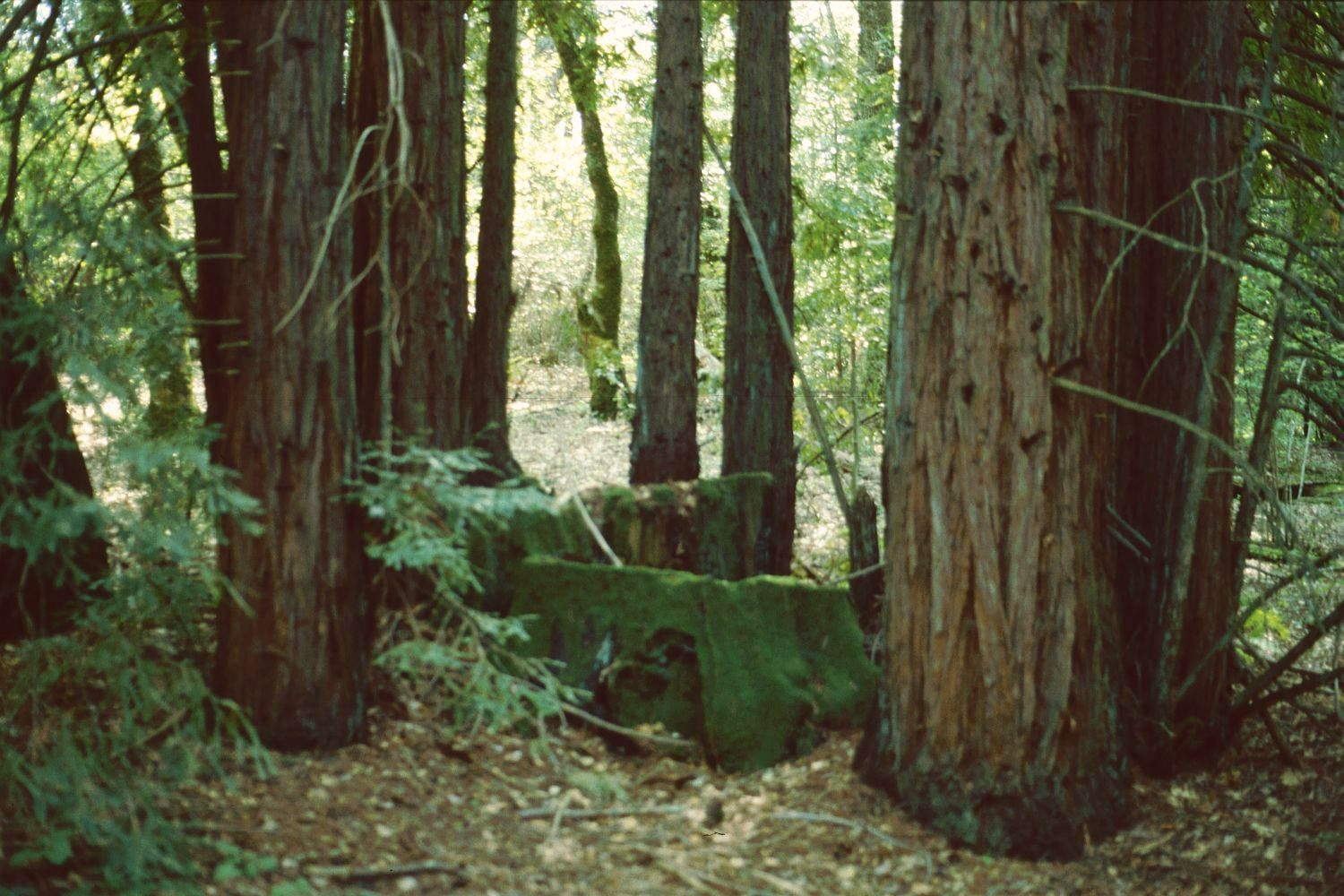 Sequoia sempervirens, Zypressengewächse (Cupressaceae), vegetative Verjüngung/vegetative regeneration. Kalifornien/California: Jack London State Historic Park, SW Glen Ellen (Sonoma County).